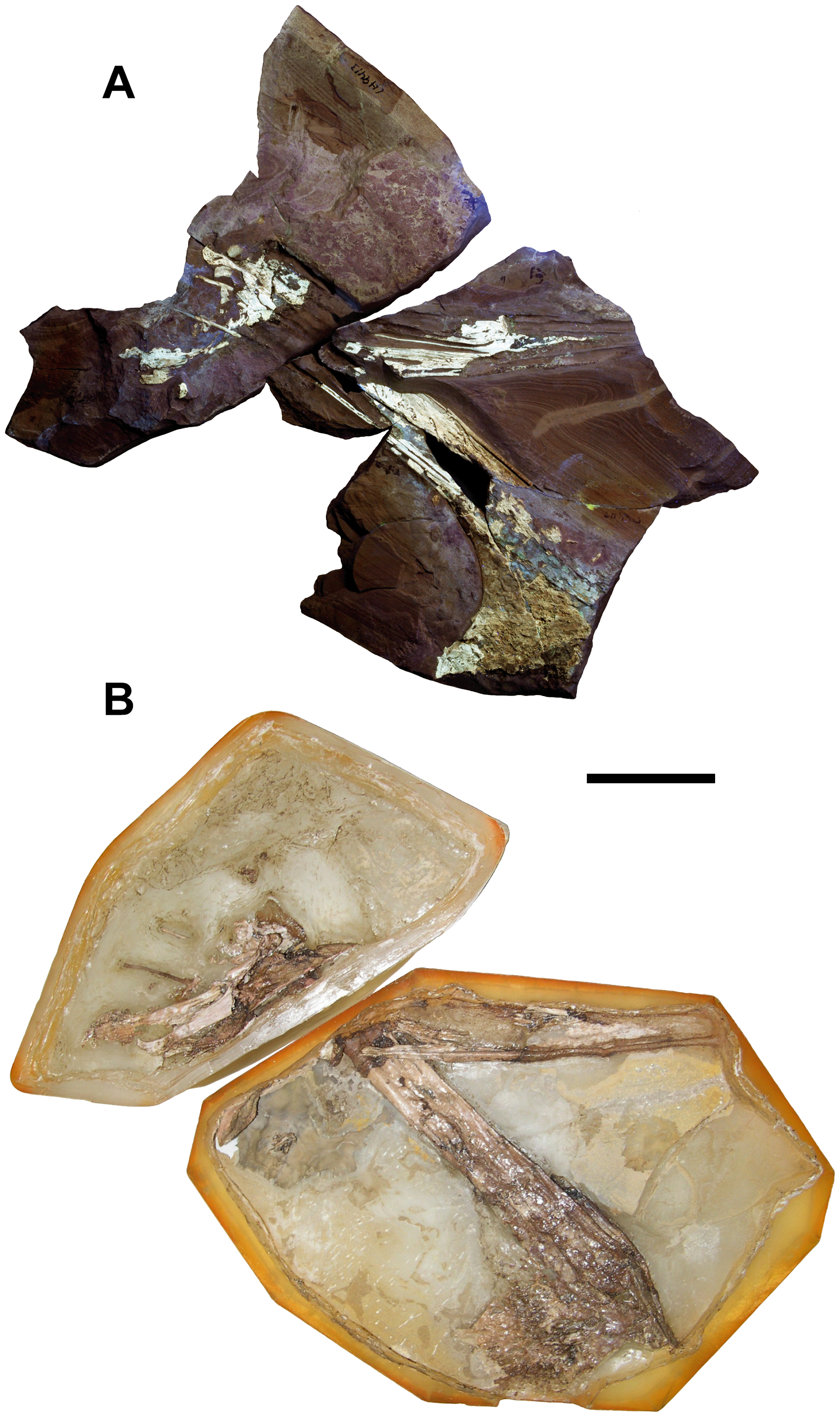 Photographs of the holotype of Europejara olcadesorum gen. et sp. nov. (MCCM-LH 9413). (A) Main slab under ultraviolet light. (B) Acid-prepared counterslab. Scale bar: 50 mm.